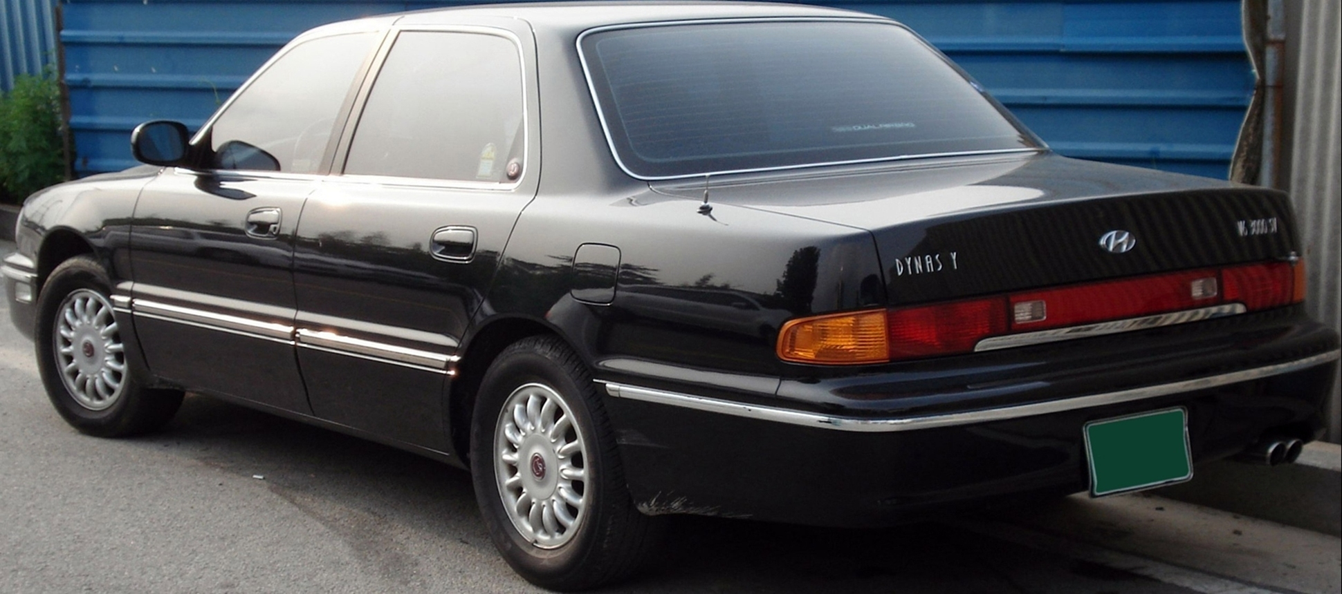 Hyundai Dynasty